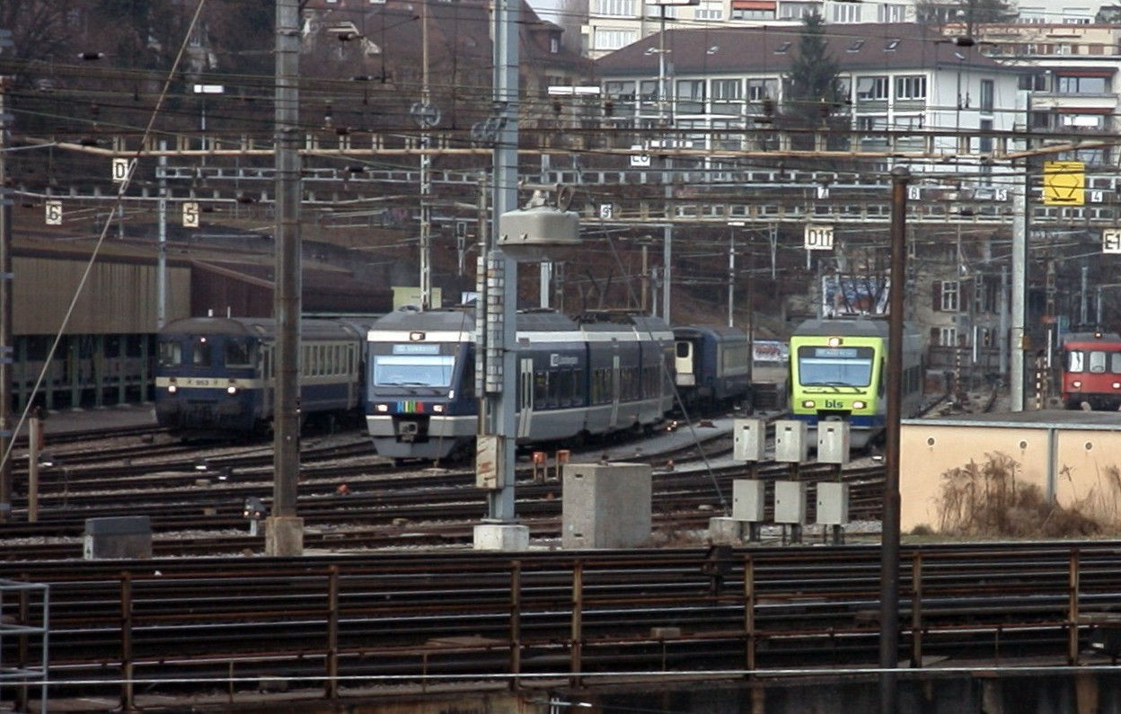 BLS NINA in old and new livery in Bern